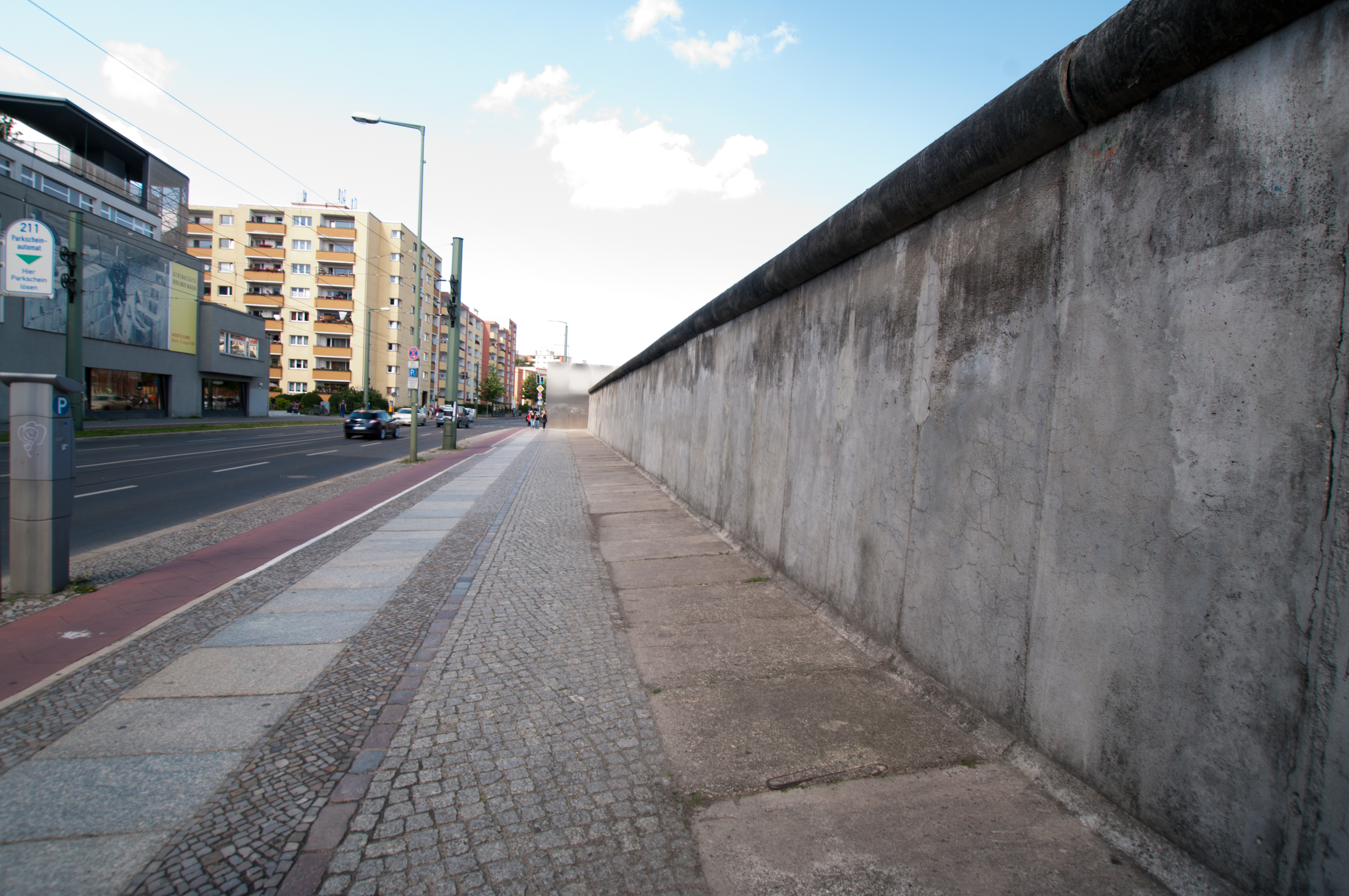 Berlin Wall Memorial site Bernauer Straße street side